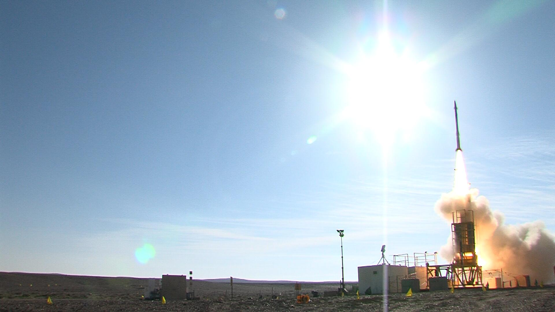 Nov. 20, 2012 - David's Sling Weapons System Stunner Missile intercepts target during inaugural flight test.